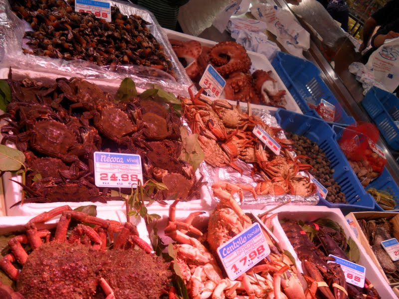 Sea.Food in Central Madrid Market 01